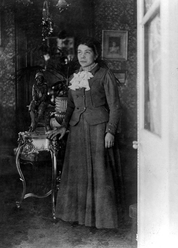 María Angélica Barreda, primera abogada del país, en su hogar. Buenos Aires 1910. AGN_DDF/ Caja 1276, inv: 54330.